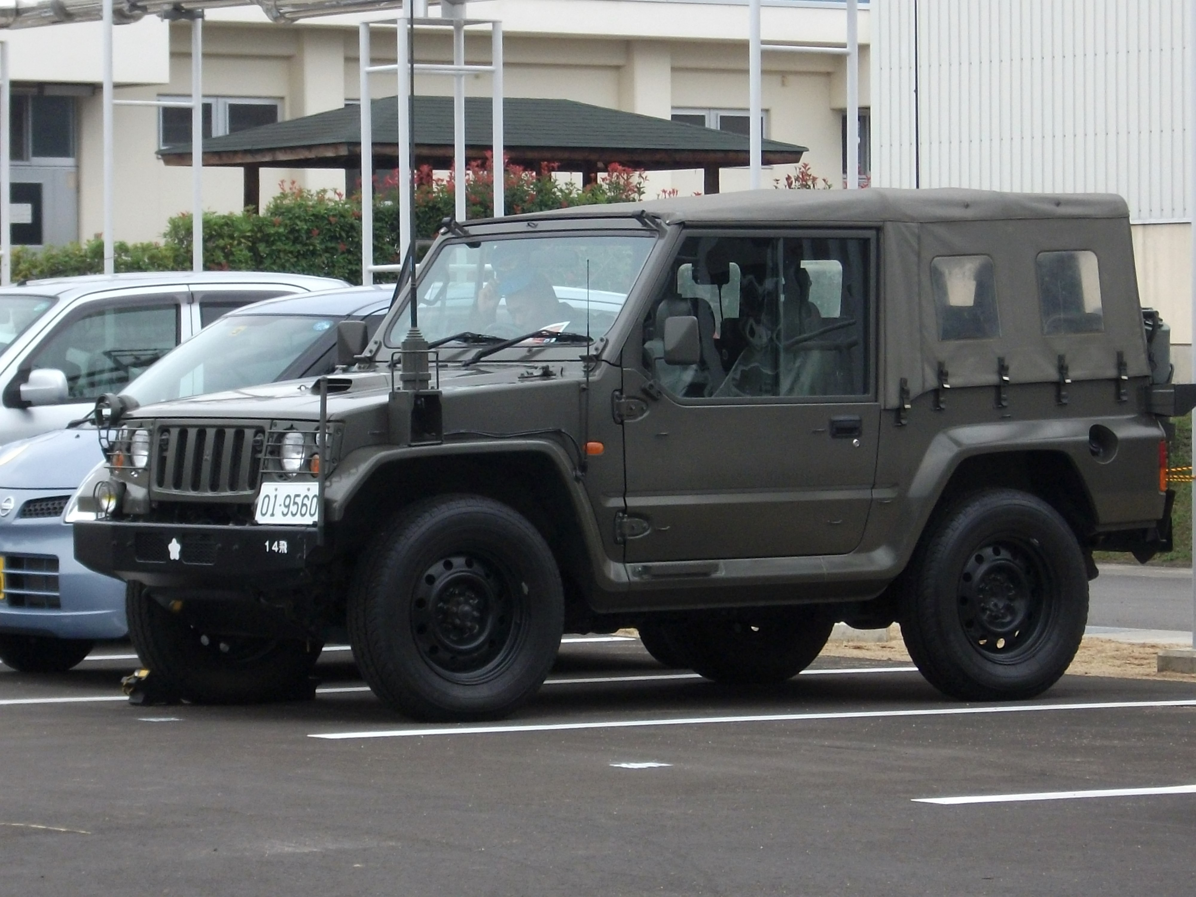 JGSDF 2/1t track